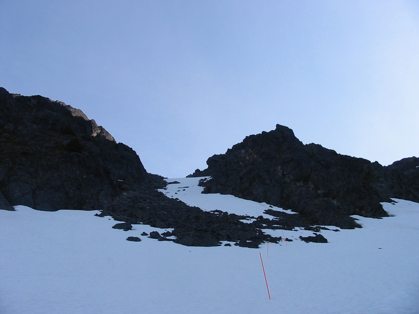 A picture I took of the Golden Stairs on the Chilkoot Trail.